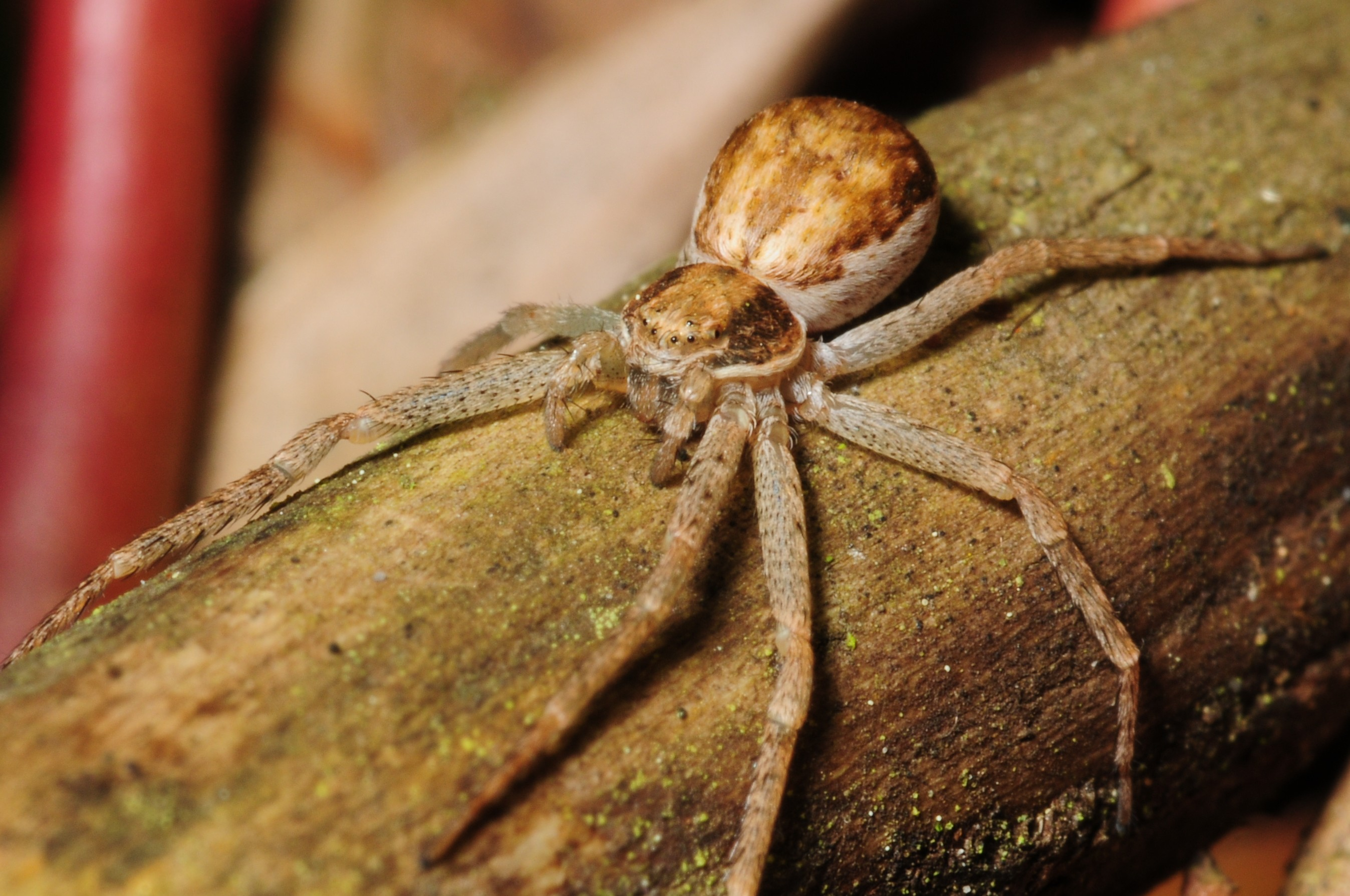 Female Philodromus dispar (Running Crab Spider) From Seattle, WA, US